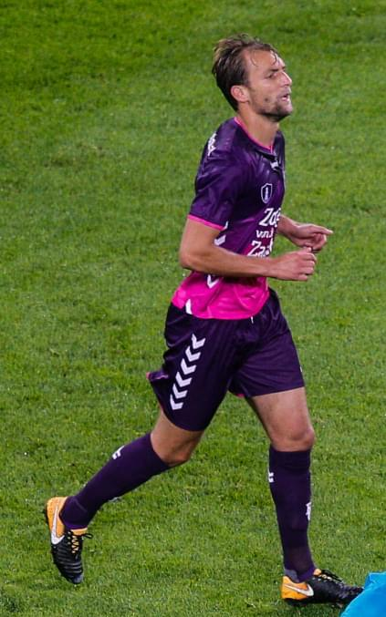 24.08.2017. Россия, Санкт-Петербург, стадион «Санкт-Петербург». Лига Европы УЕФА 2017/18, 4-й квалификационный раунд, «Зенит» — «Утрехт».